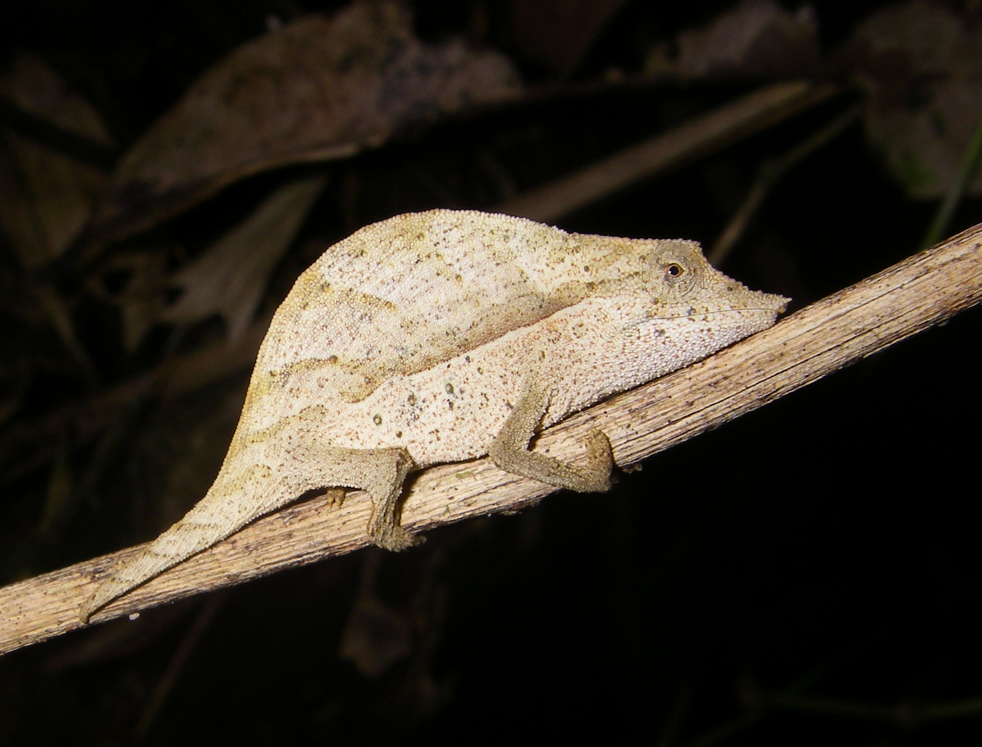 Brookesia nasus (Chamaeleonidae); Ranomafana National Park, Madagascar